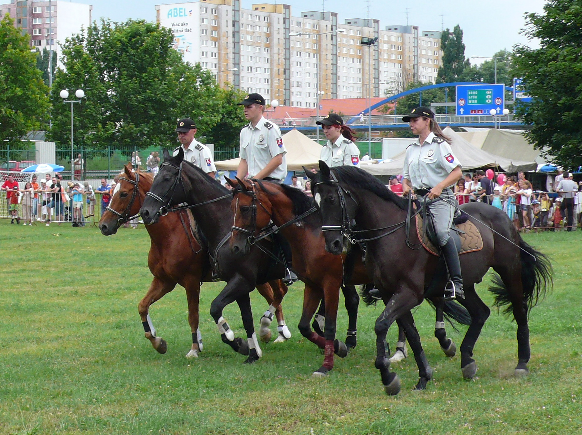 Members of the Horse Posse of the Regional Police Department in Bratislava